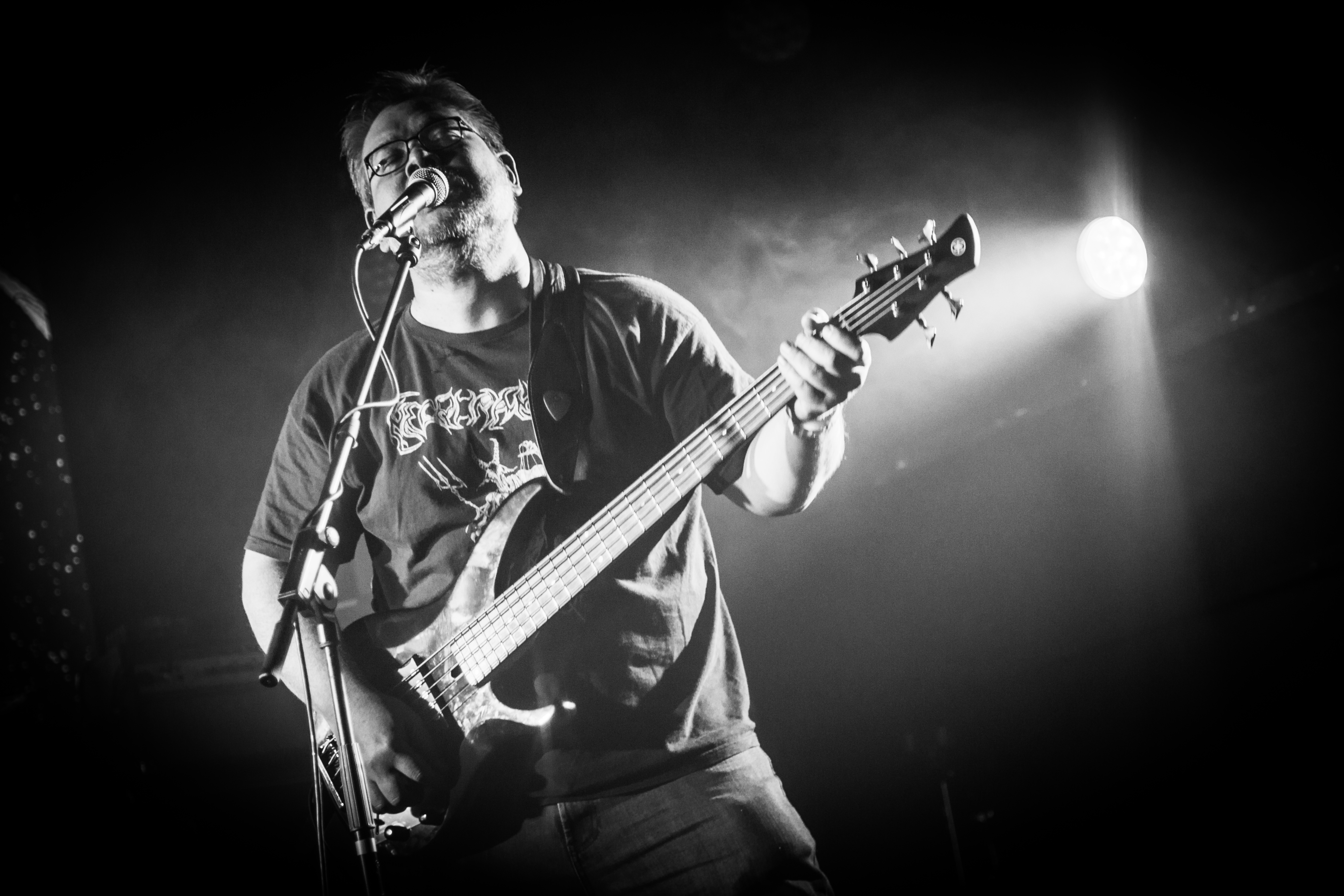 Gnaw Their Tongues live at Roadburn Festival, Tilburg, April 2017